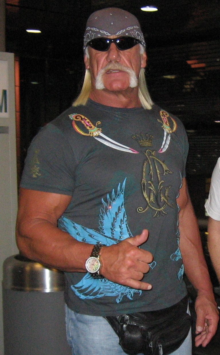 Hulk Hogan at McCarran International Airport in Las Vegas